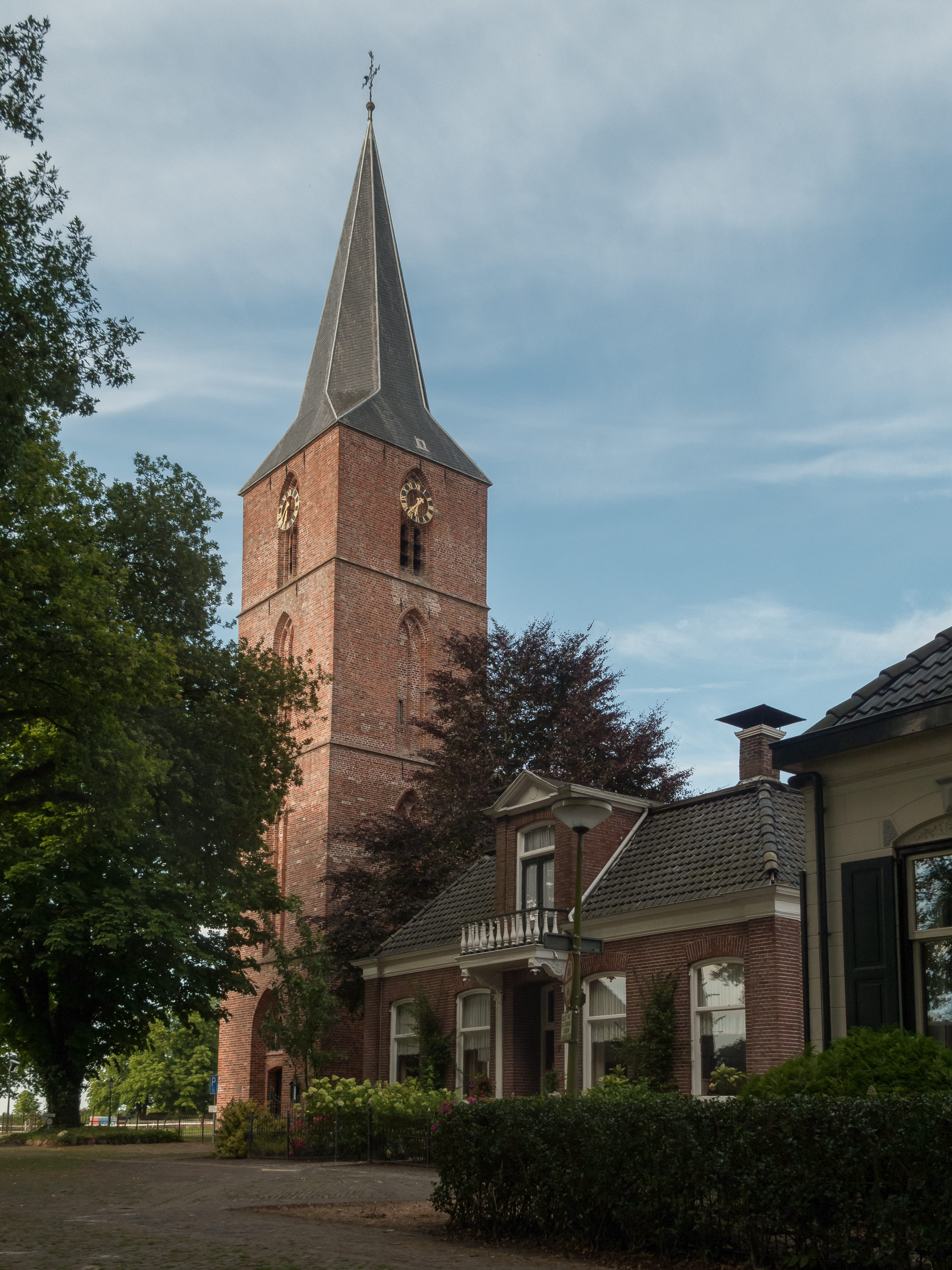 Rolde, churchtower (de Jacobuskerk)